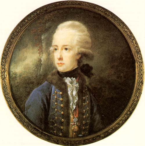 Archduke Joseph, Palatine of Hungary (1776-1847)